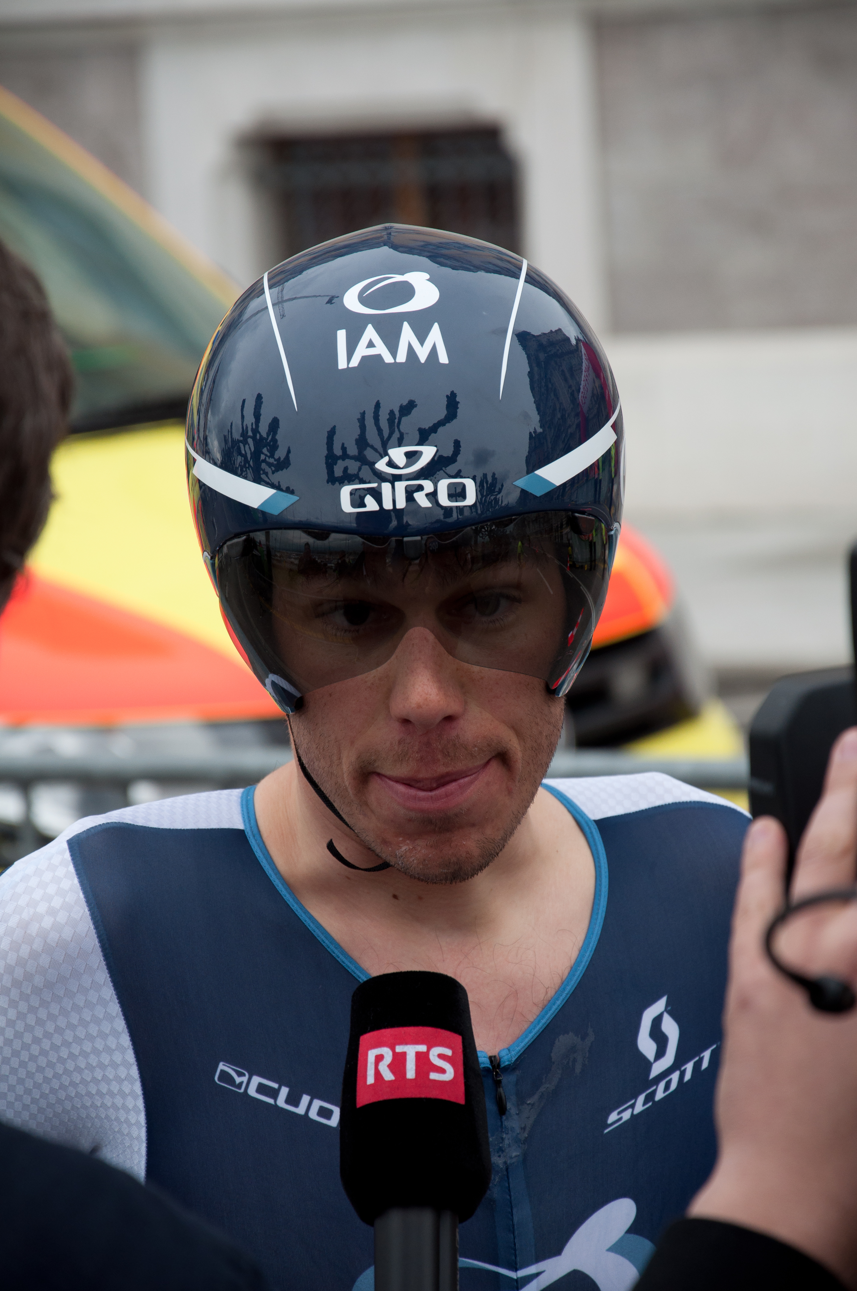 Swiss rider Jonathan Fumeaux, IAM Cycling, being interviewed, after the finish line, by Radio Television Suisse's sport journalist Miguel Aquiso.